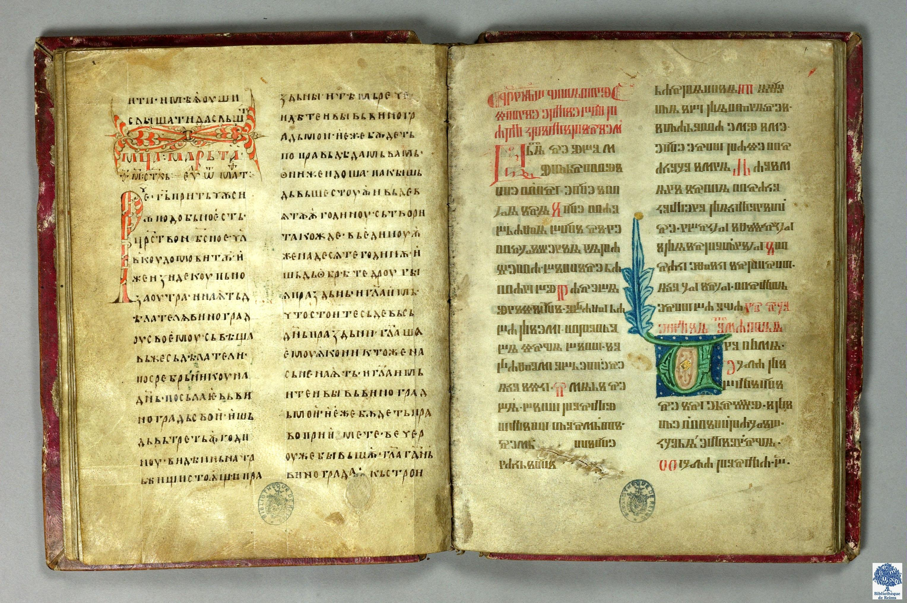 Reims gospel book